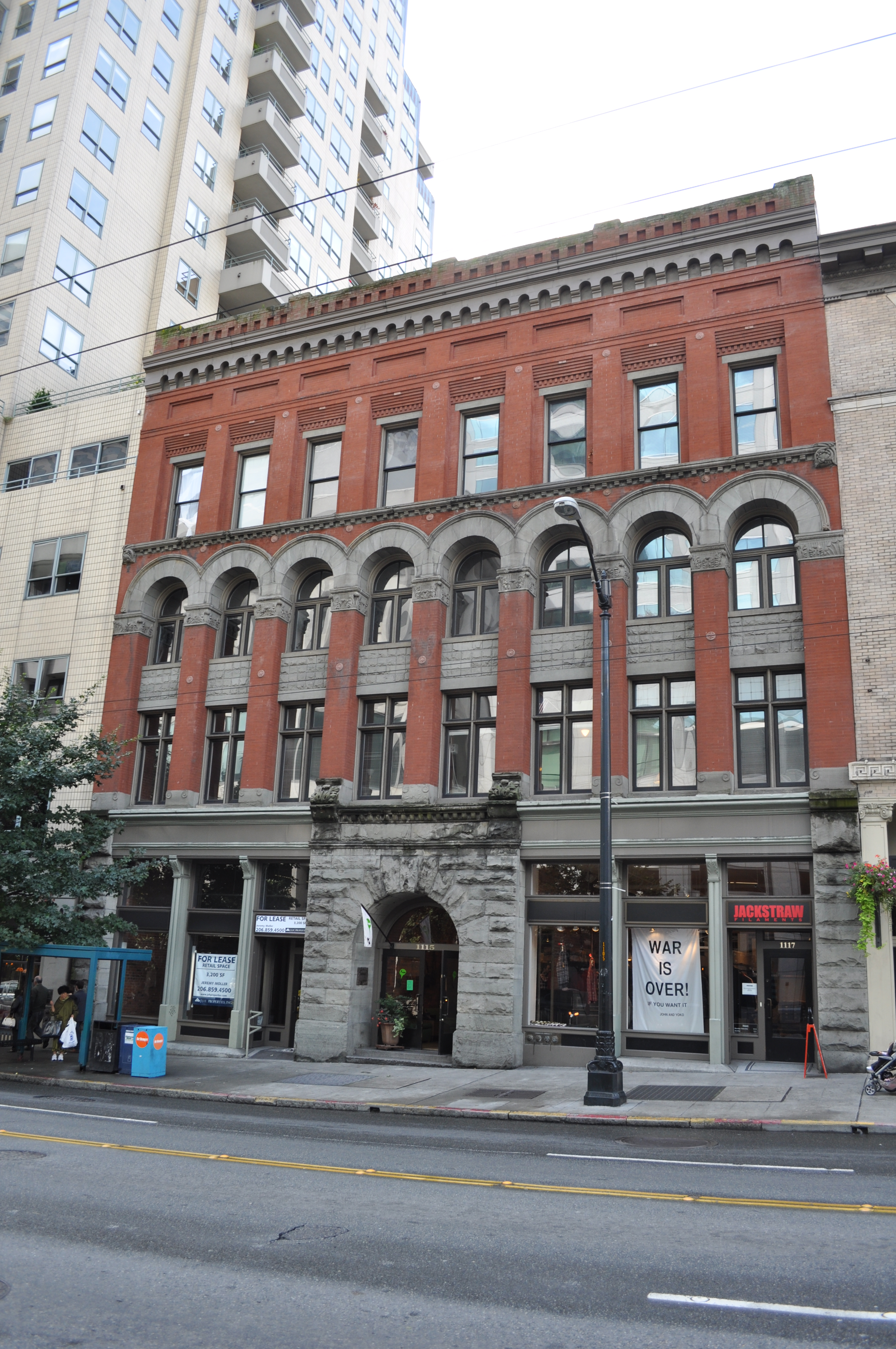 Grand Pacific Hotel building 1115–1117 First Avenue, Seattle, Washington, USA. Listed on the National Register of Historic Places, ID #82004236. There is a good short article about the Grand Pacific Hotel on the site of the Klondike Gold Rush National Historical Park.